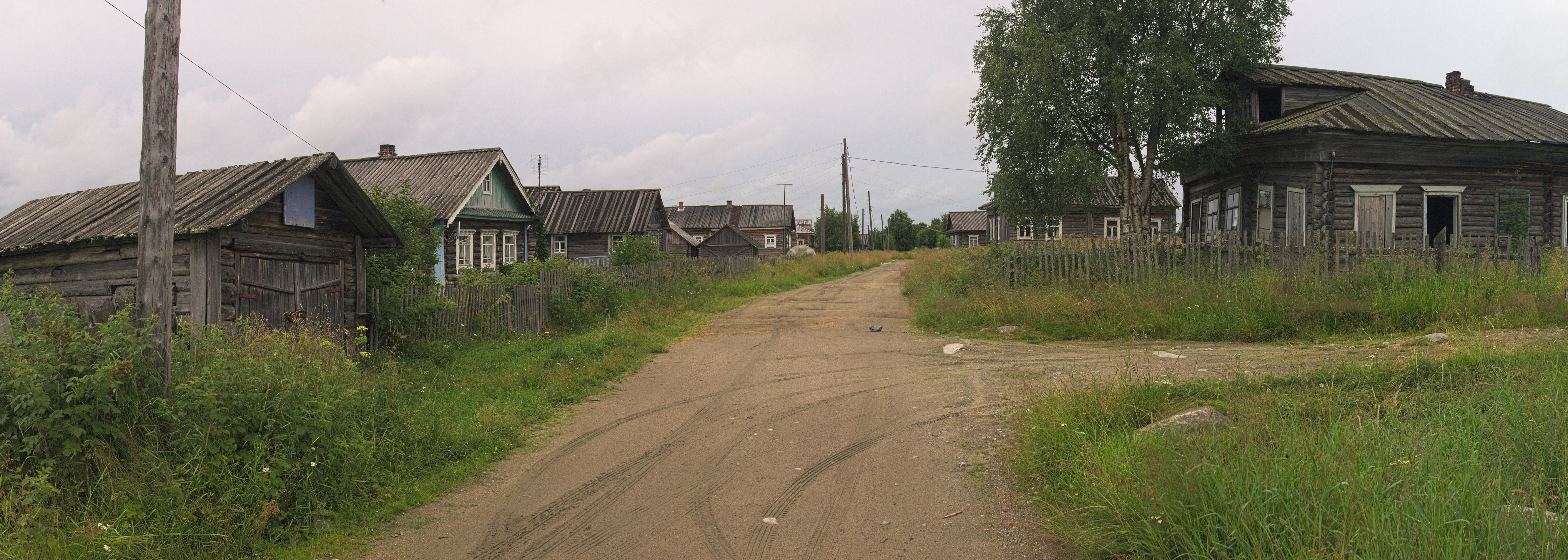 Old Paanajärvi village.